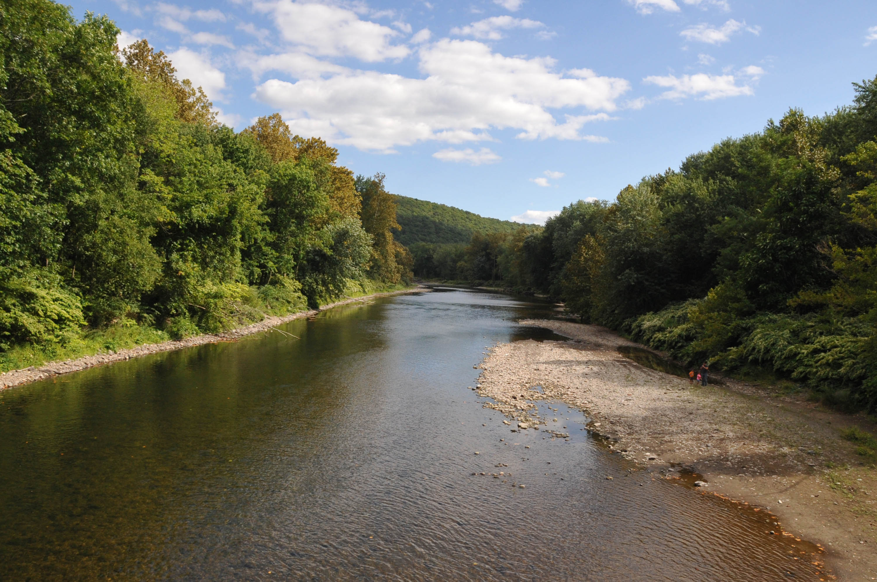 THIS IS A VIEW OF THE BRODHEAD CREEK LOOKING TOWARD ITS CONFLUENCE WITH THE DELAWARE RIVER. THE HILLS IN THE BACKGROUND ARE IN NEW JERSEY